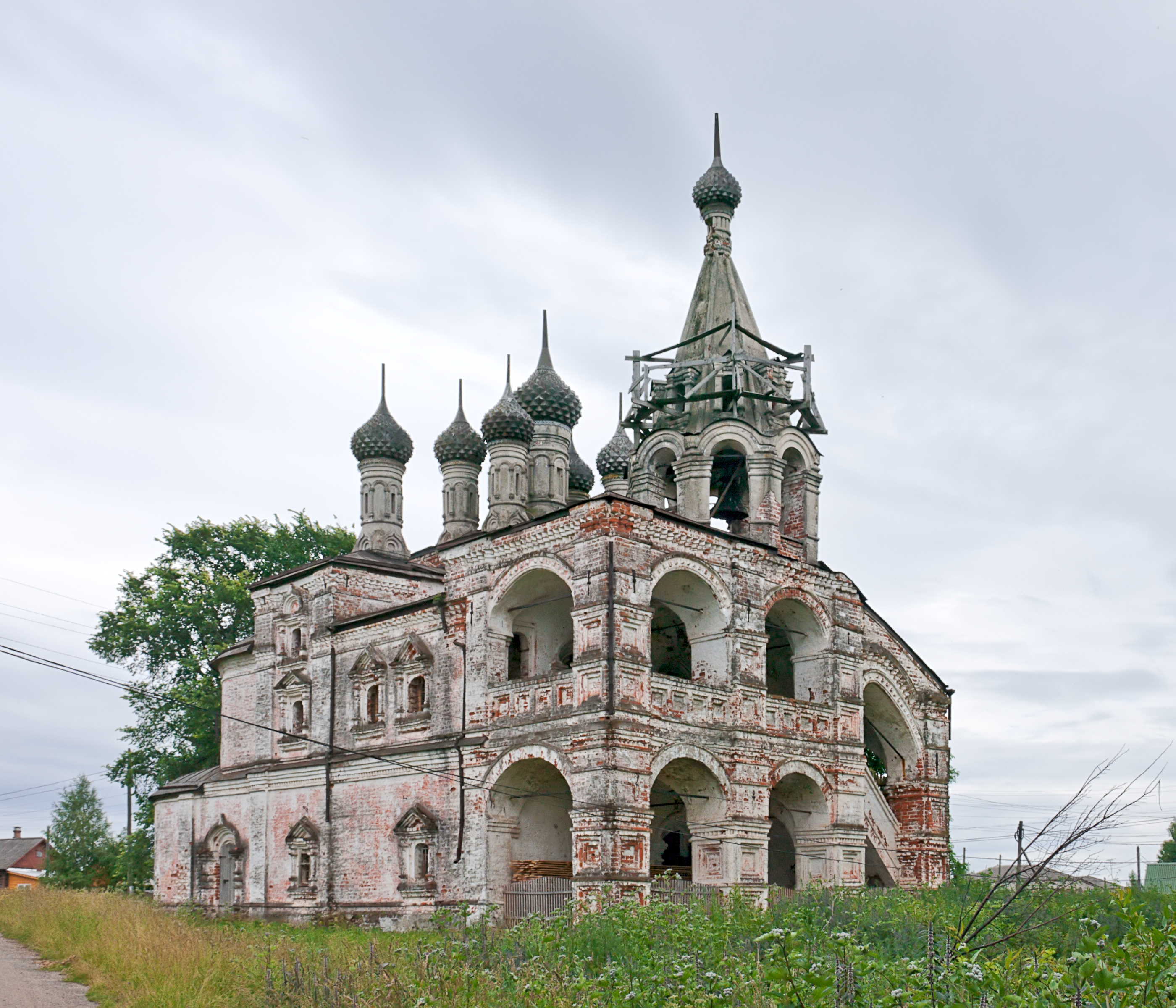 The Trinity Church (1659) in the village of Podolets, Yuryev-Polsky District, Vladimir Oblast